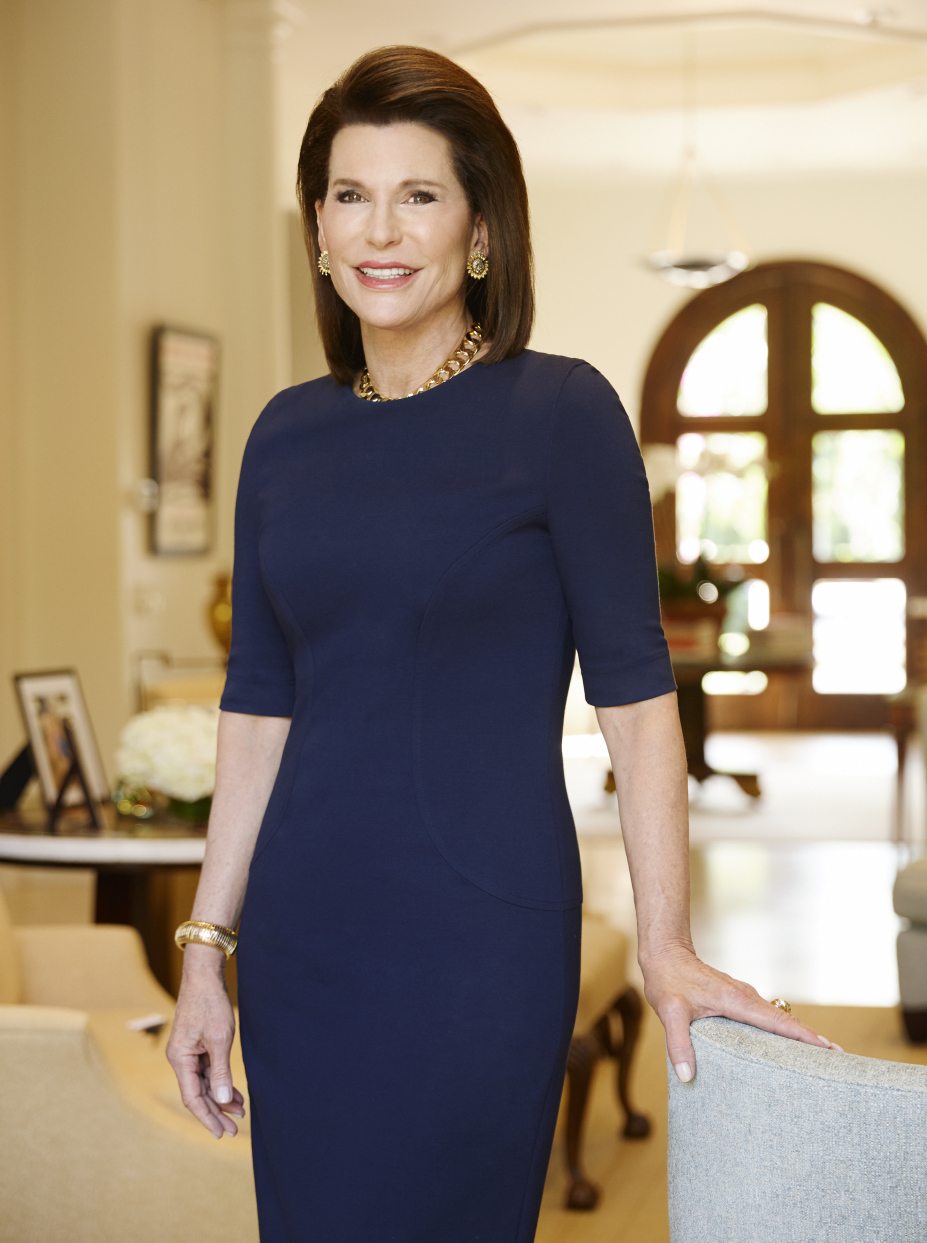 Nancy Brinker Official Headshot 2017